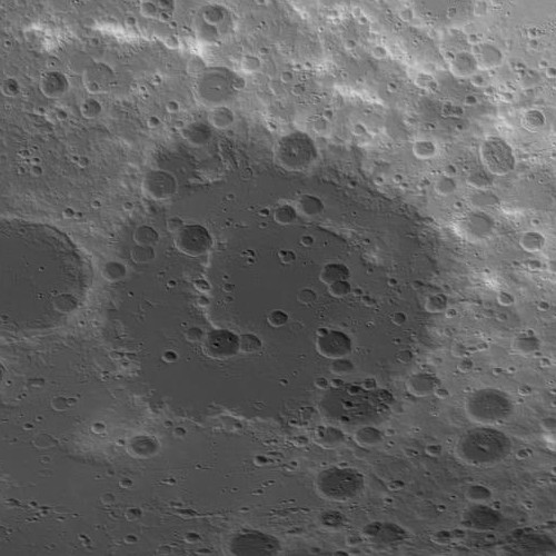 Apollo (crater) topographic map (light gray=high, dark gray=low). Generated from LOLA 1024ppd Elevation - Numeric layer with LRO-WAC Shaded Relief layer at 30% opacity overlain.